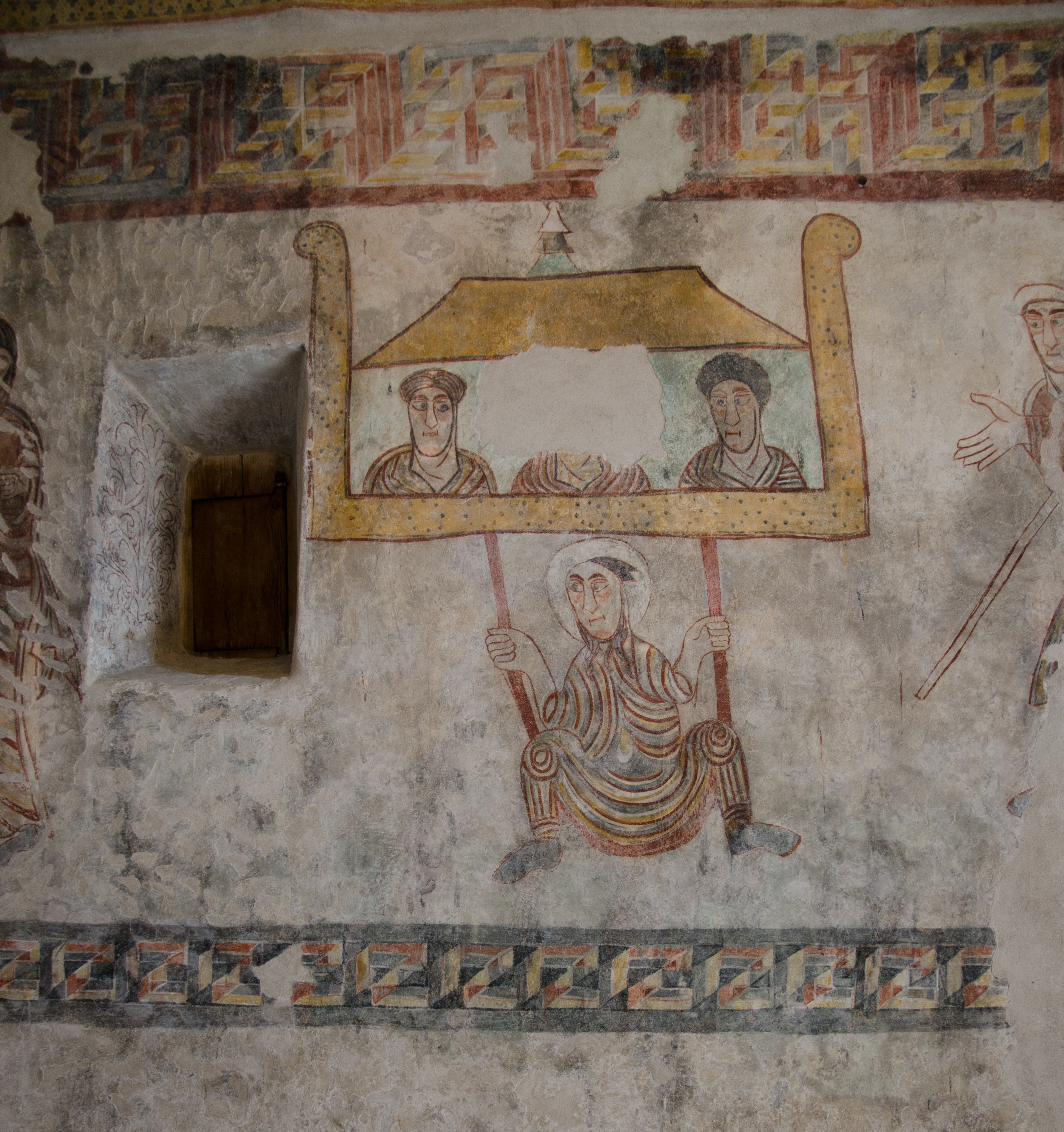 Fresco in the church St. Prokulus, Natruno, South Tyrol, Italy